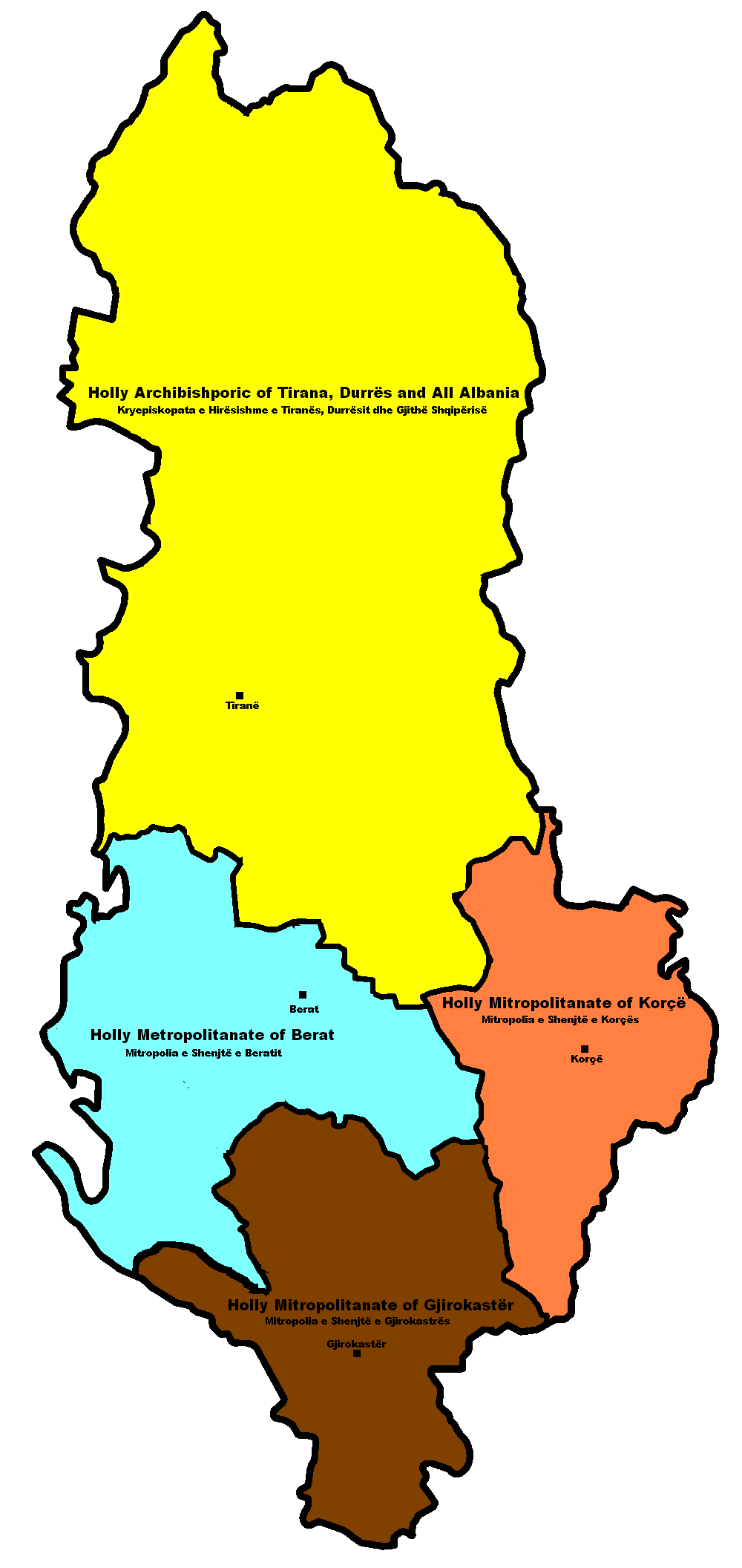 The four metropolitan sees of the Orthodox Autocephalus Church of Albania